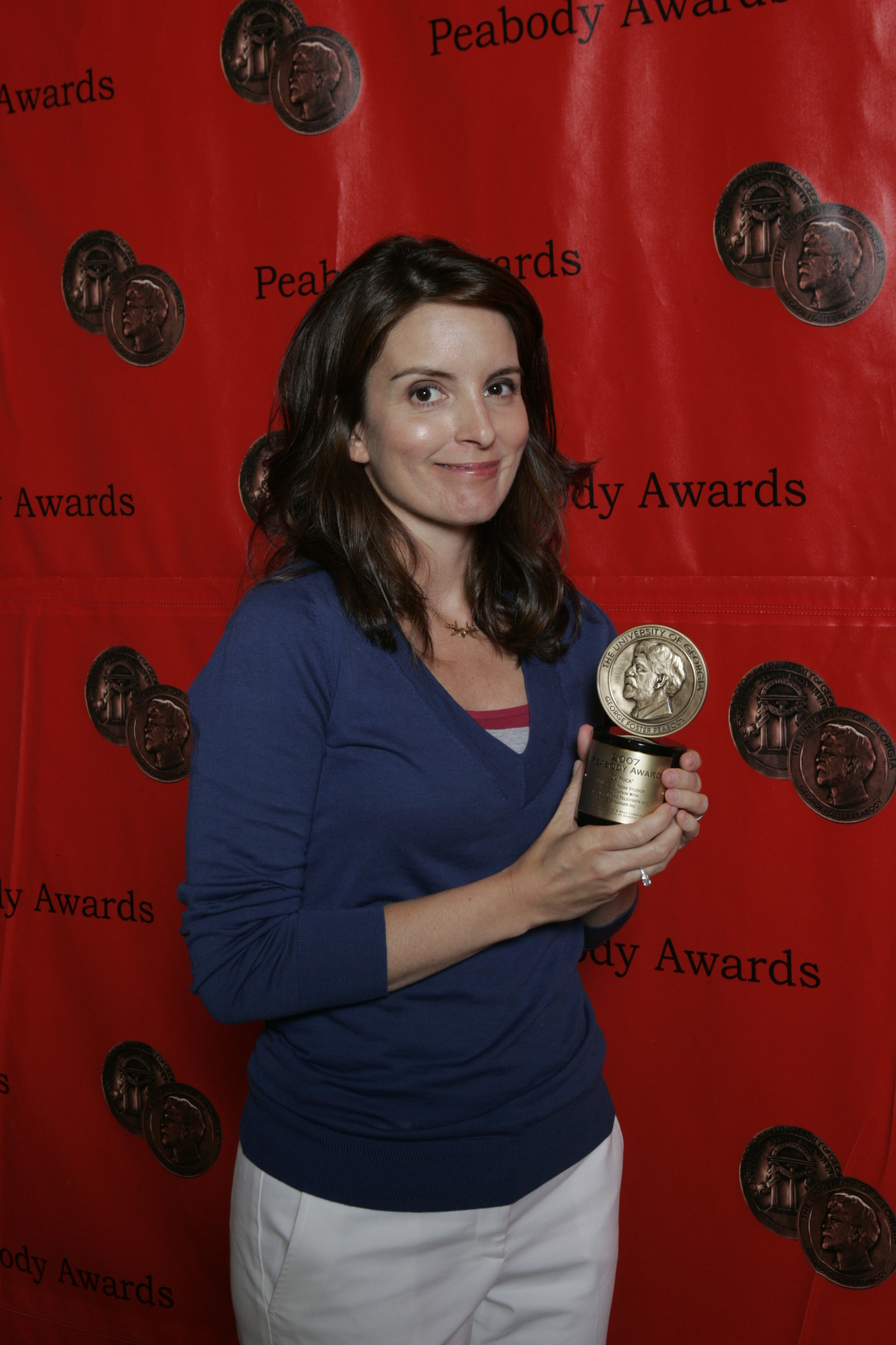 Tina Fey 67th Annual Peabody Awards Luncheon Waldorf=Astoria Hotel New York, NY USA June 16, 2008